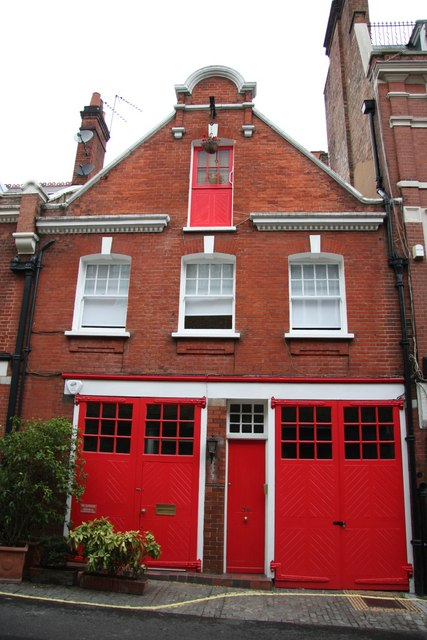 Mews House Classic mews in Bruton Place, Mayfair W1